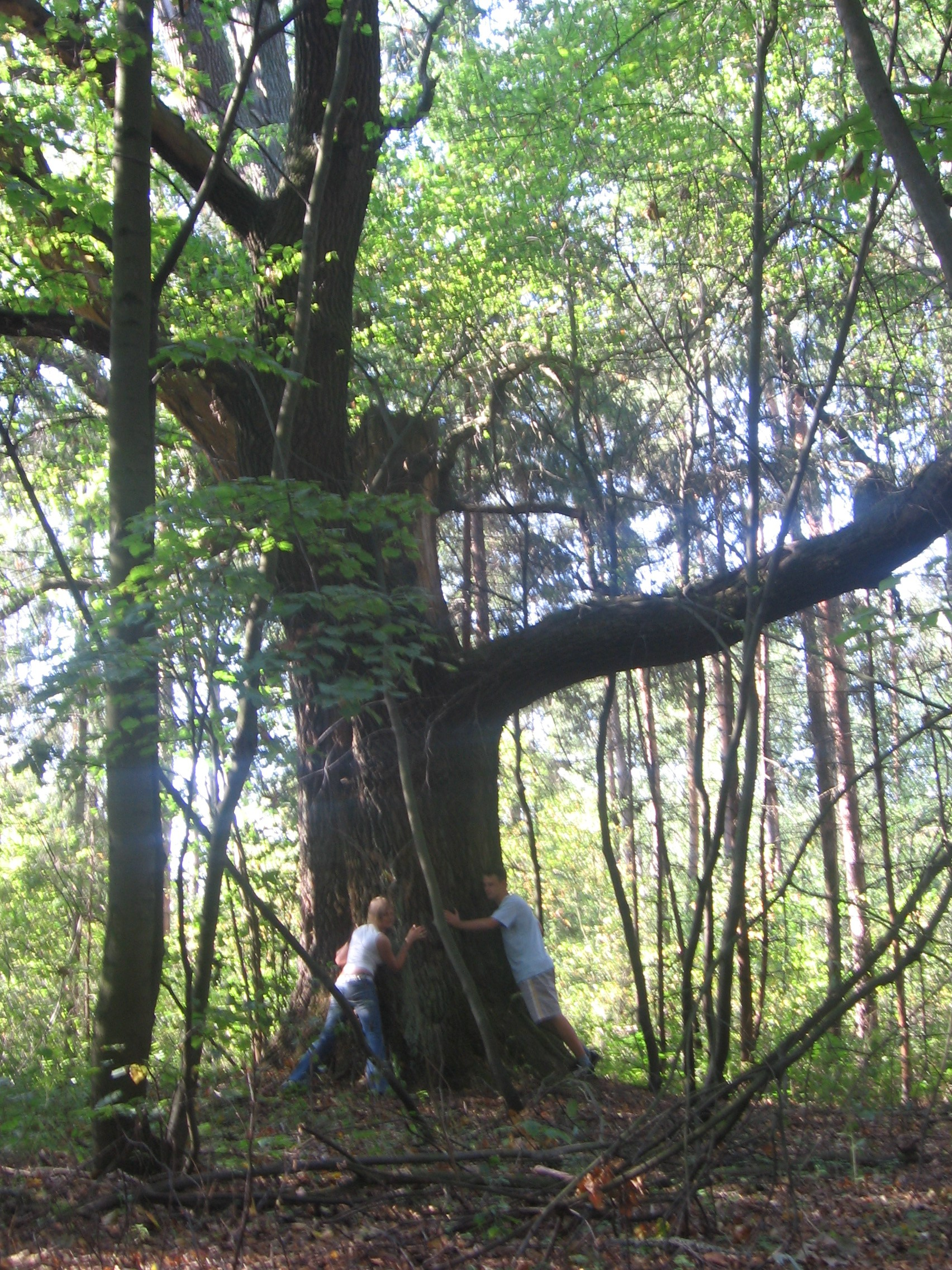 Authors: Karol and Daniel Ciesielscy Source: my own picture Description: oak Mnich in Mnichów (Poland) Date: 24.09.2006